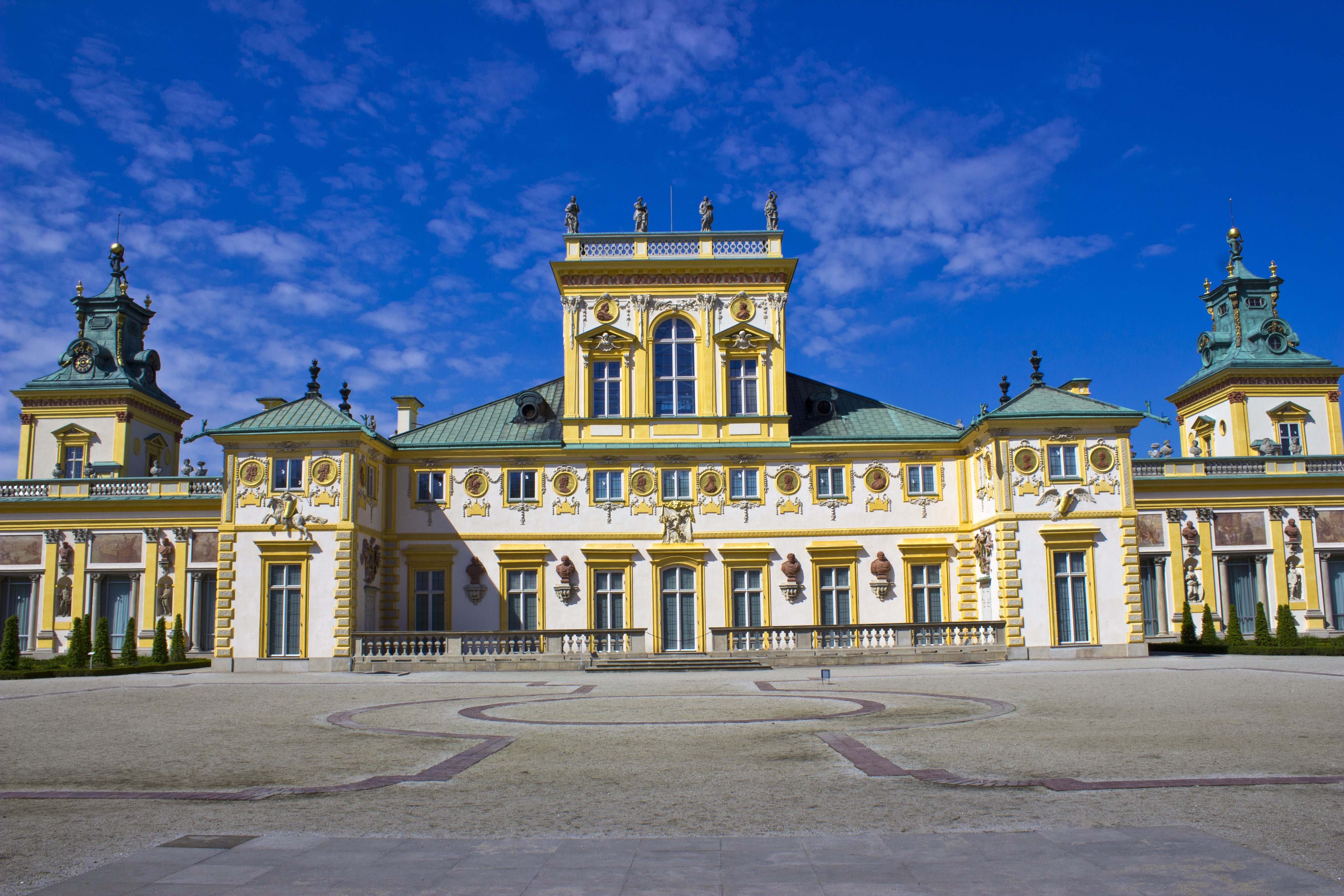 Wilanow palace